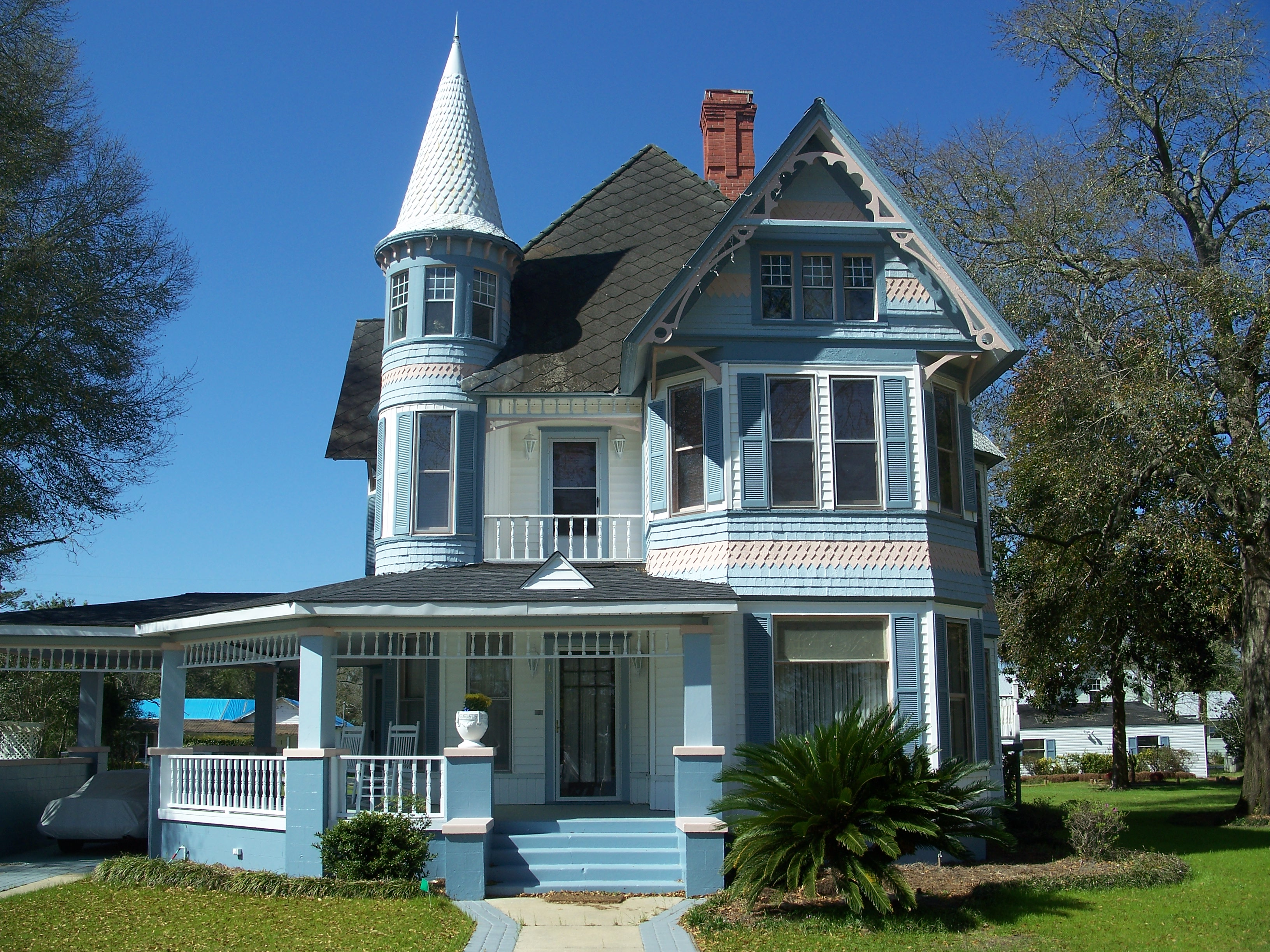 A house in the DeFuniak Springs Historic District in DeFuniak Springs, Florida. It is on Circle Drive, the road that goes around Lake DeFuniak, at the heart of the district.